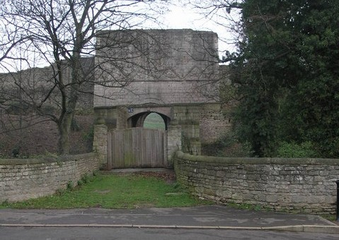 Tickhill Castle. The gatehouse of Tickhill castle is thought to date from the early 11th century. It is one of the oldest surviving Norman gatehouses in England.